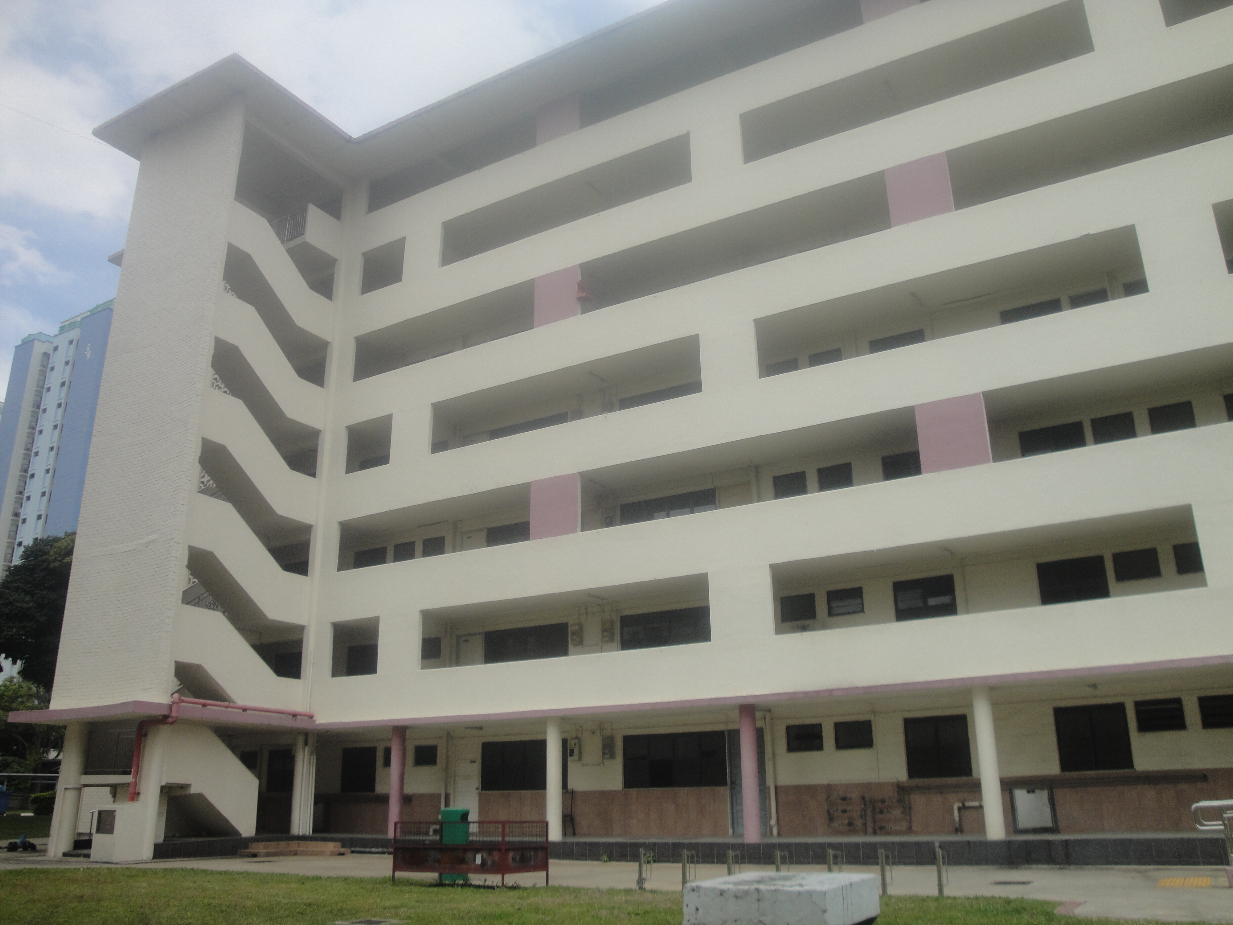 7-storey slab blocks